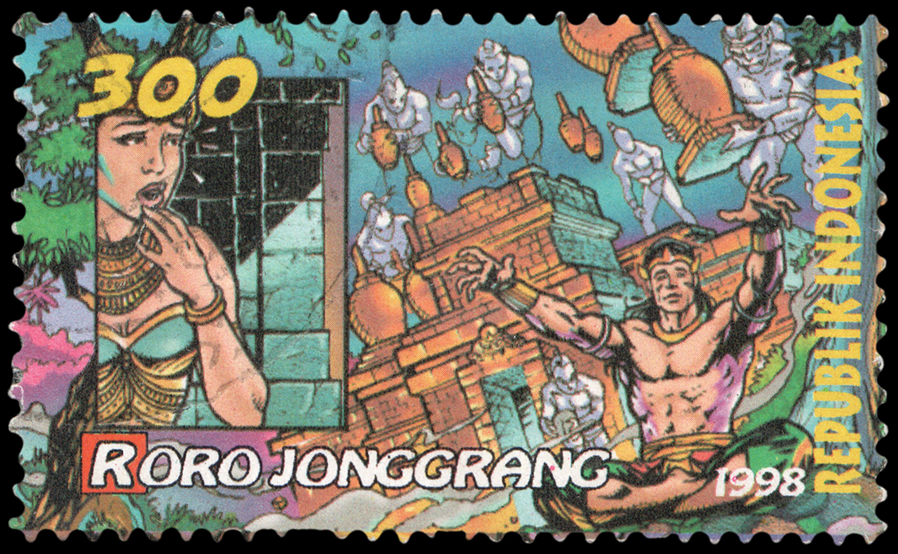 Roro Jonggrang, 300rp (1998)